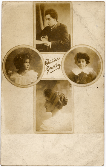 Christmas greeting card displaying English composer Samuel Coleridge-Taylor (up) and his family.